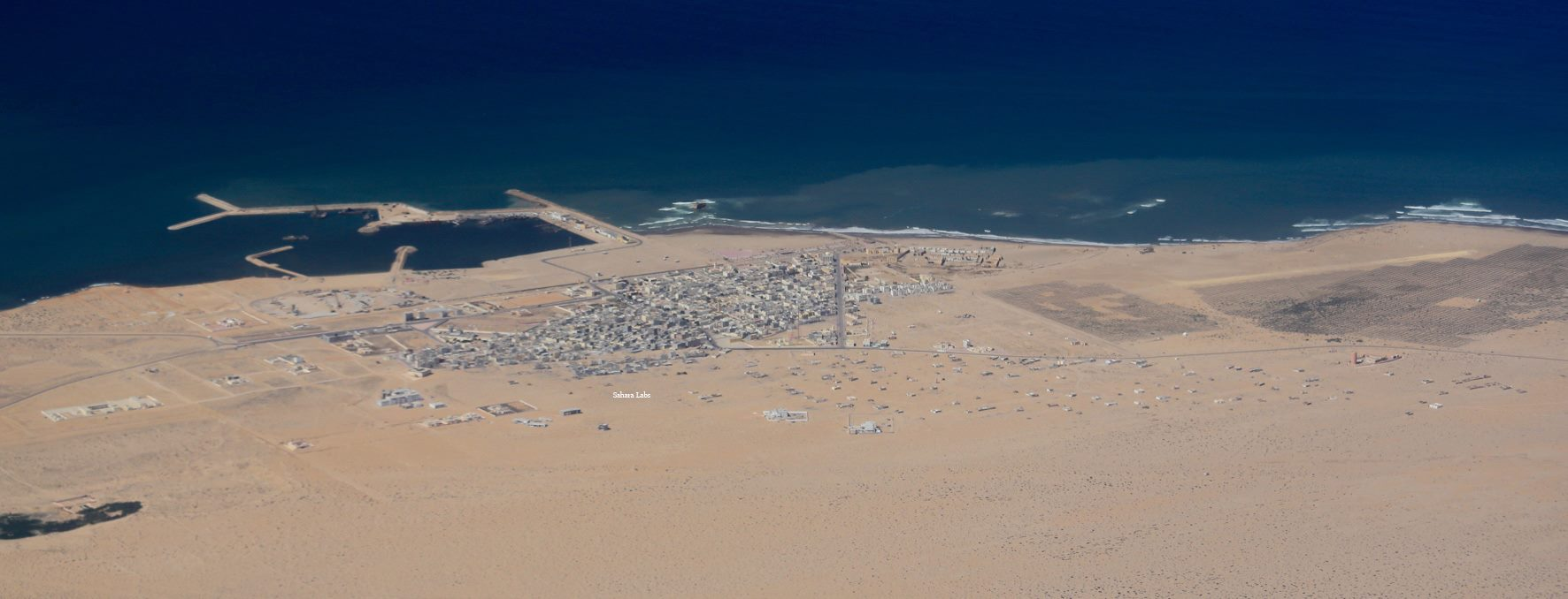 the town Tarfaya seen from the sky.